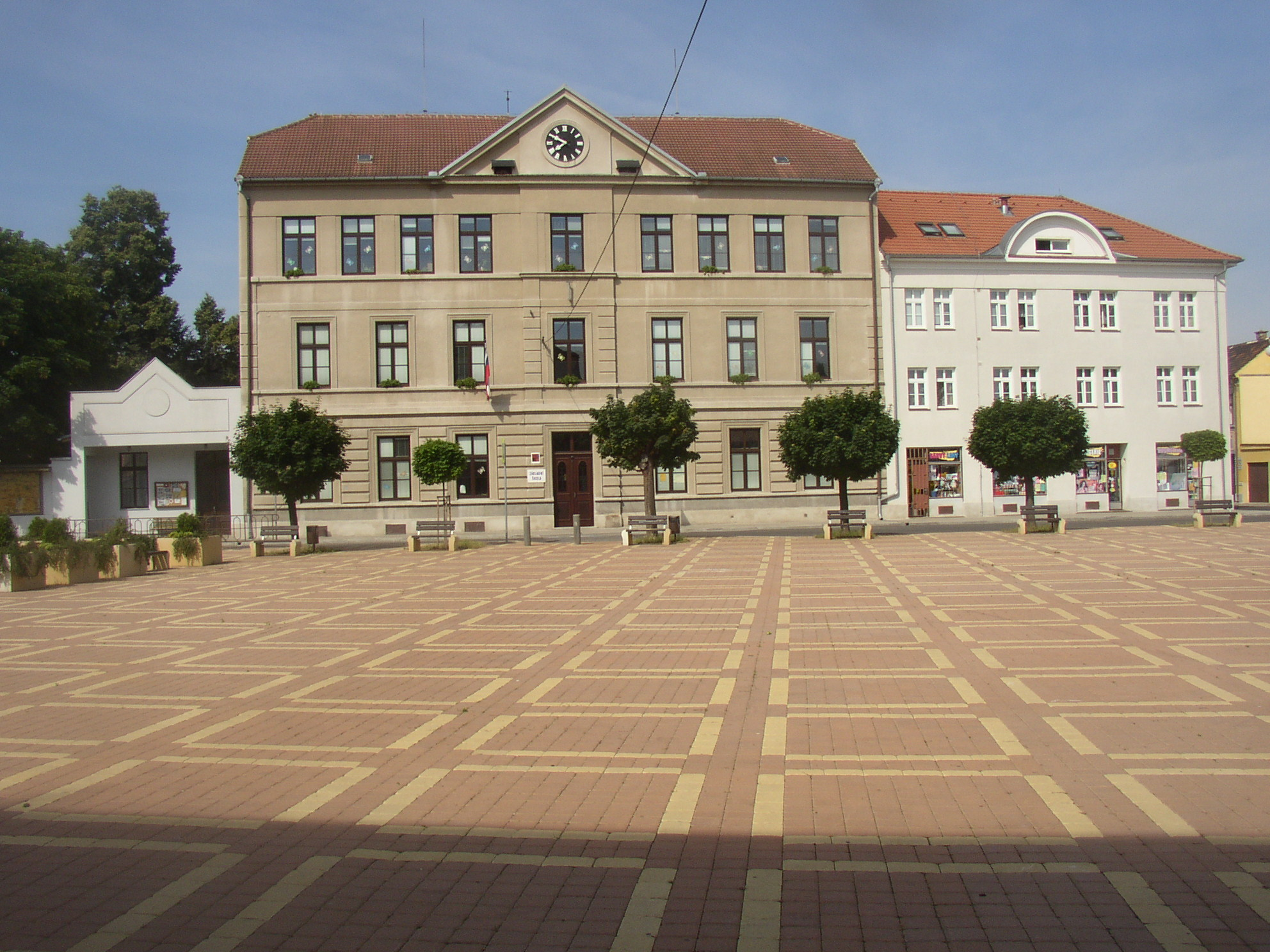 Bohušovice nad Ohří, Litoměřice District, Czech Republic. Elementary school in western side of Hus Square.